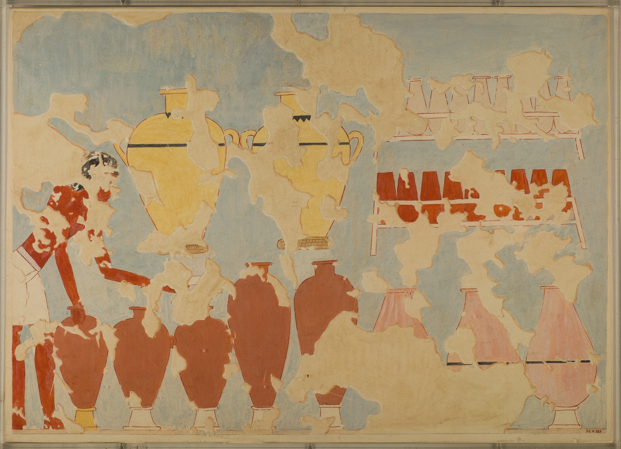 Facsimile, Nebamun (TT 179), wine and beer